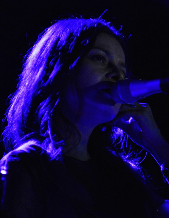 Hope Sandoval at All Tomorrow's Parties New York 2010, Monticello, NY, September 3-5, 2010